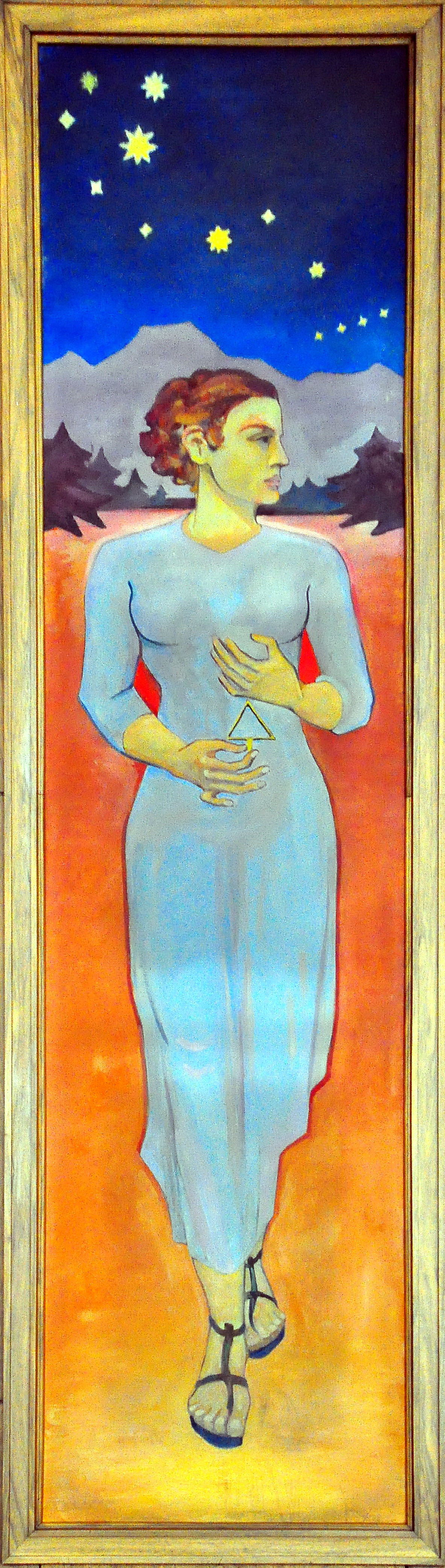 Wall painting